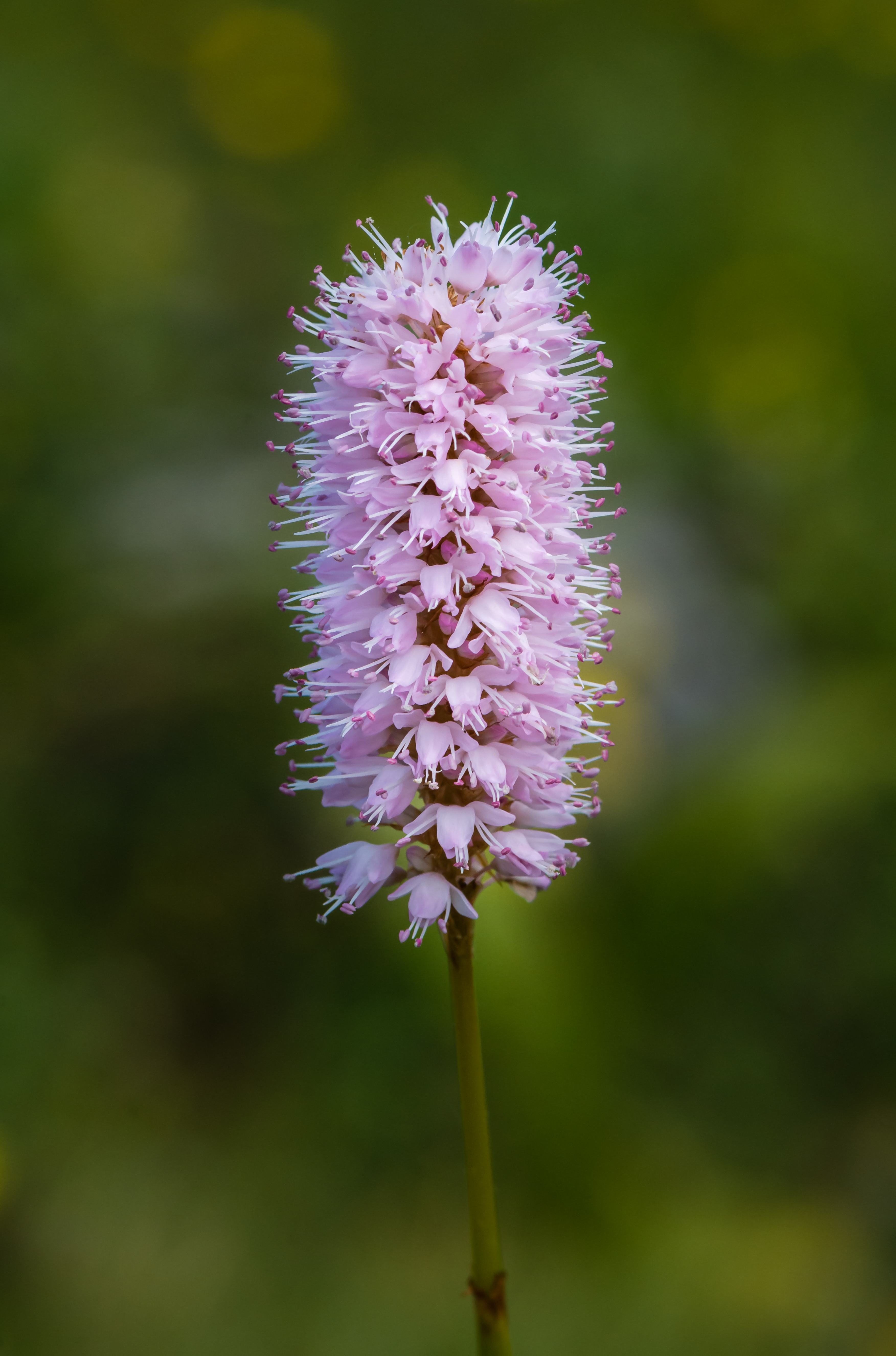 European Bistort (Bistorta officinalis) found on the Gemeindealpe Mitterbach, Lower Austria